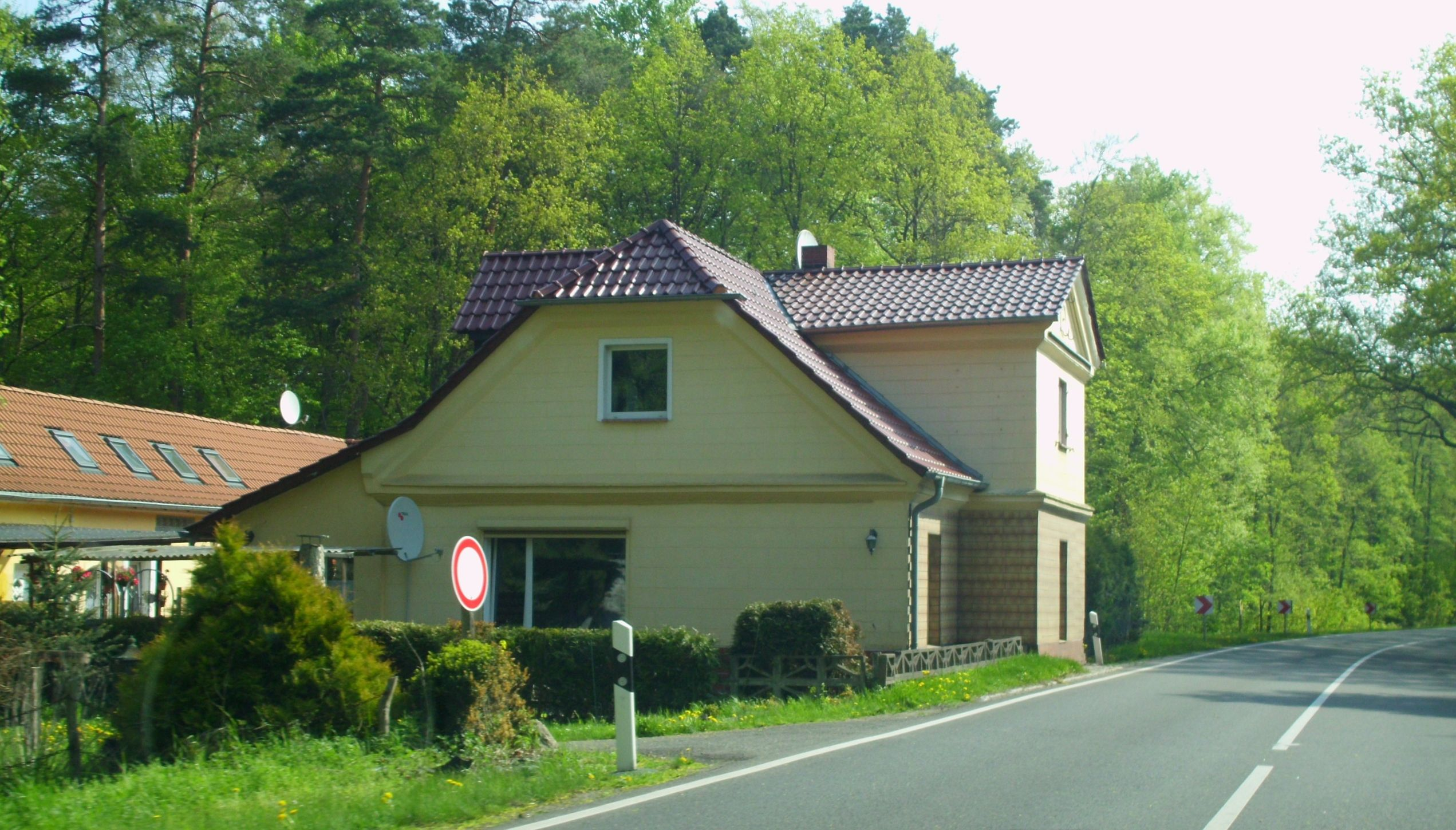 The former coaching inn on the Federal Road B1/B5 west of Muencheberg